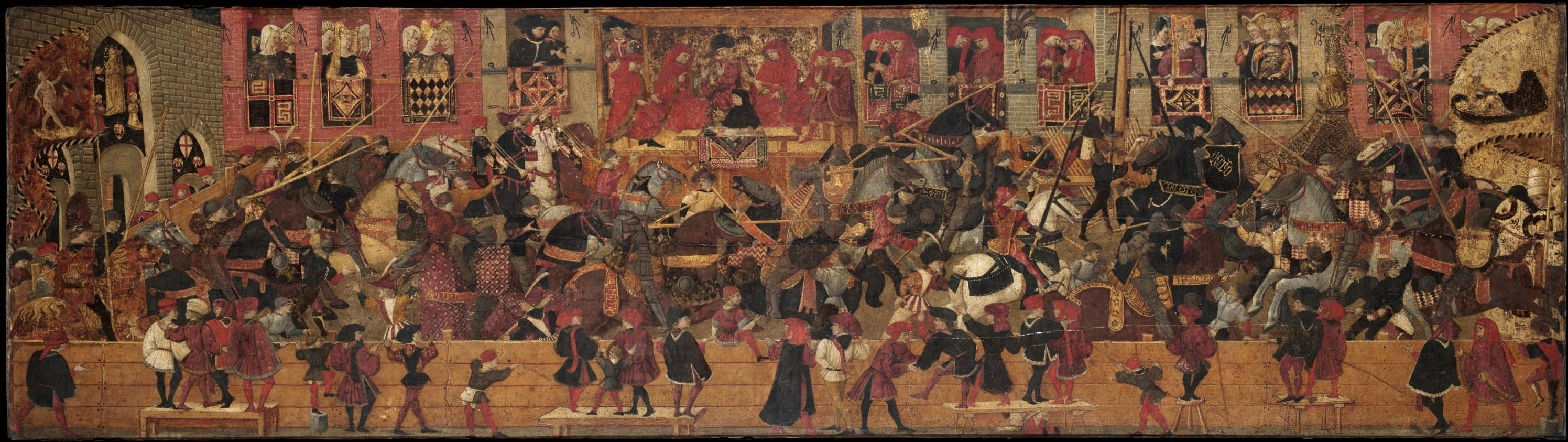 Apollonio di Giovanni, Tournament in the square of Santa Croce, Florence, ca. 1440, Yale University Art Gallery